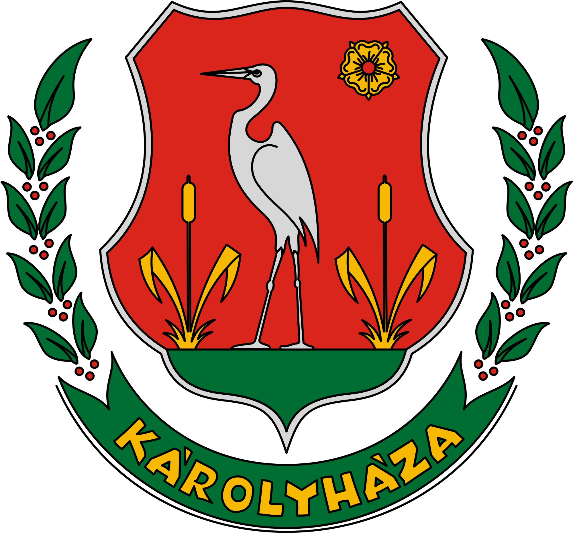 Coat of arms of Károlyháza, Hungary